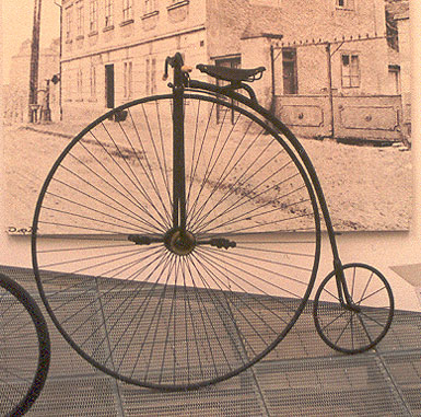 Ordinary bicycle, Skoda Museum, Mlada Boleslav, Czech Republic